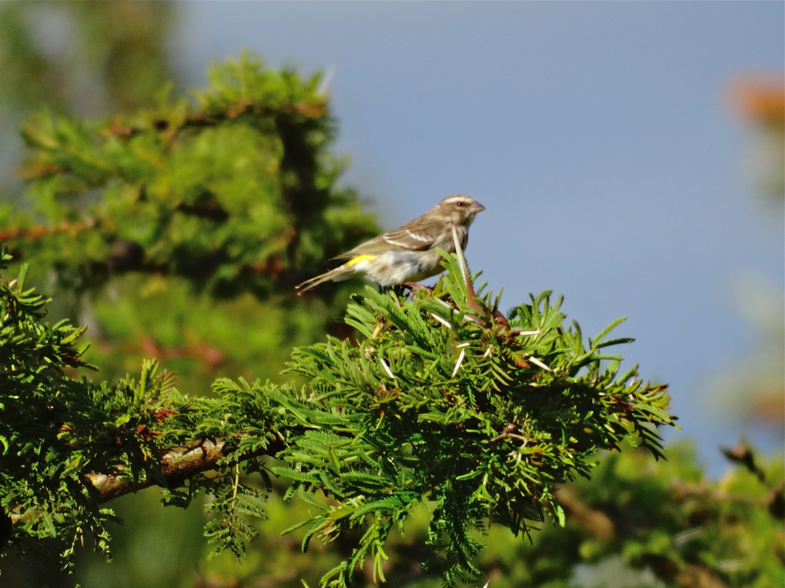 Reichenow's or Kenya yellow-rumped seedeater (Crithagra reichenowi) photographed near Nanyuki, Kenya